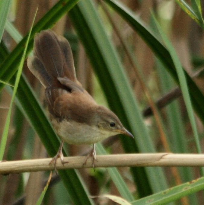 Location: Cedara Farm, Pietermaritzburg, South Africa.